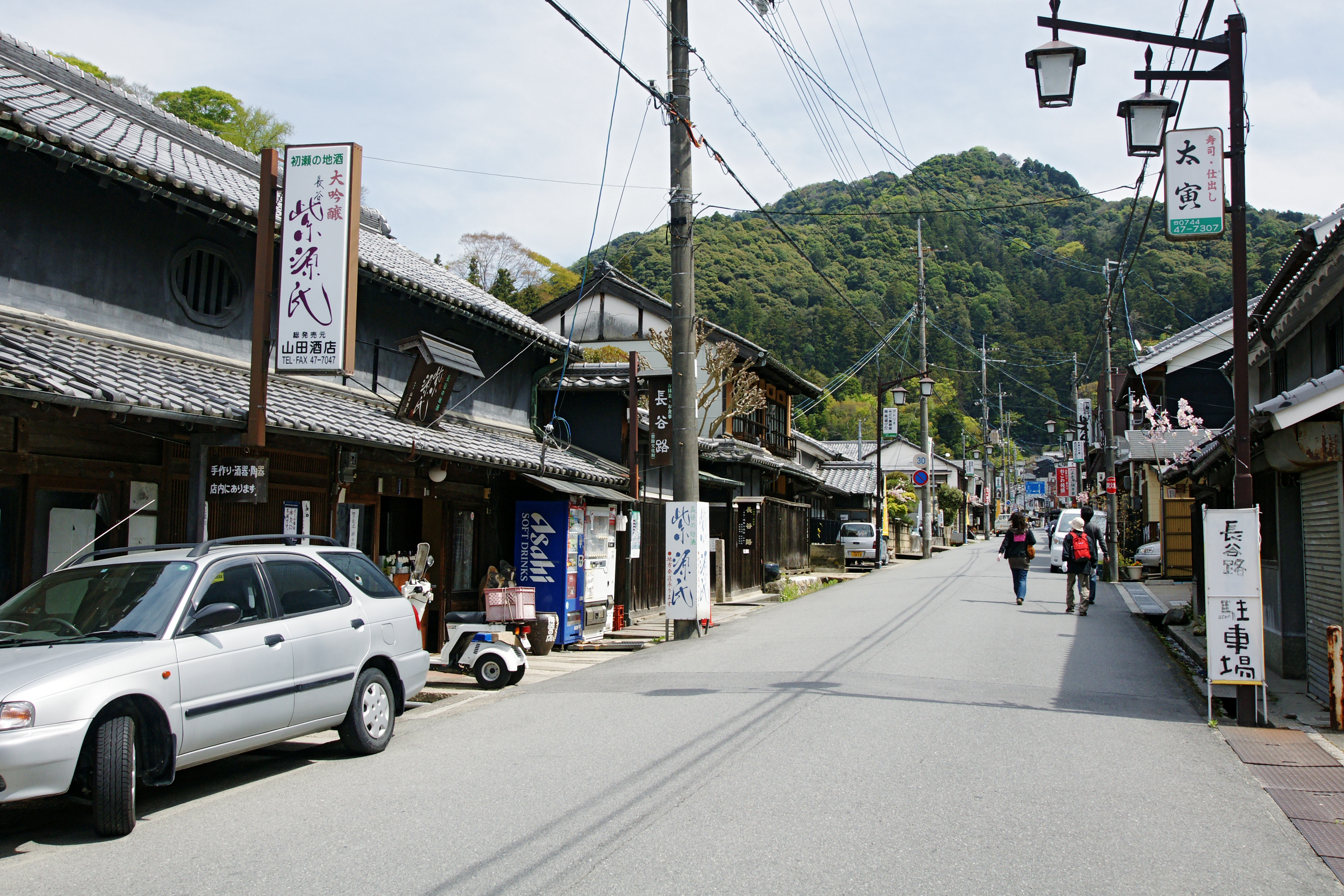 at the temple town of Hase-dera in Sakurai, Nara prefecture, Japan